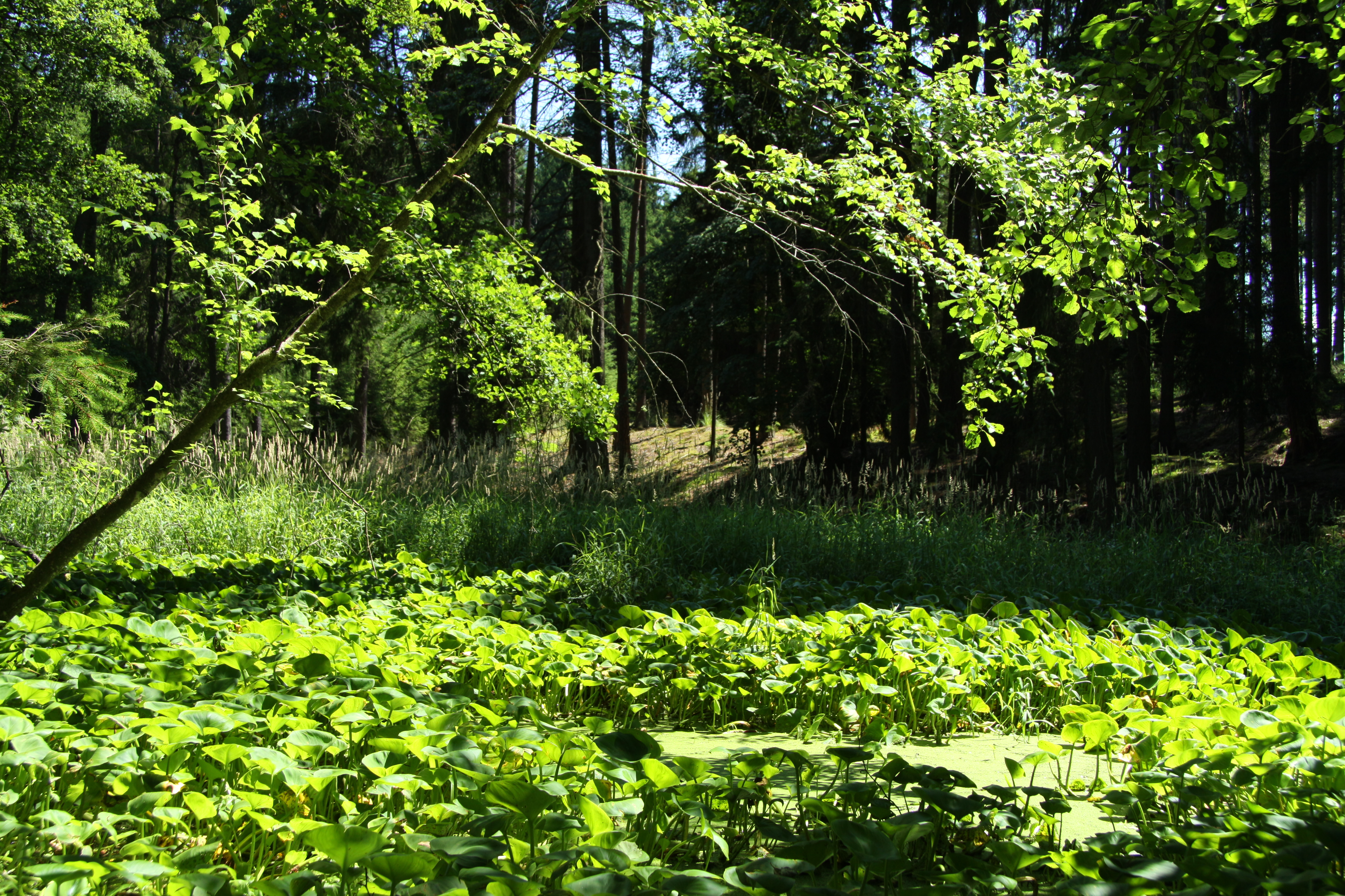 Leaves of Calla palustris in natural monument Stříbrná Huť, Tábor District, Czech Republic